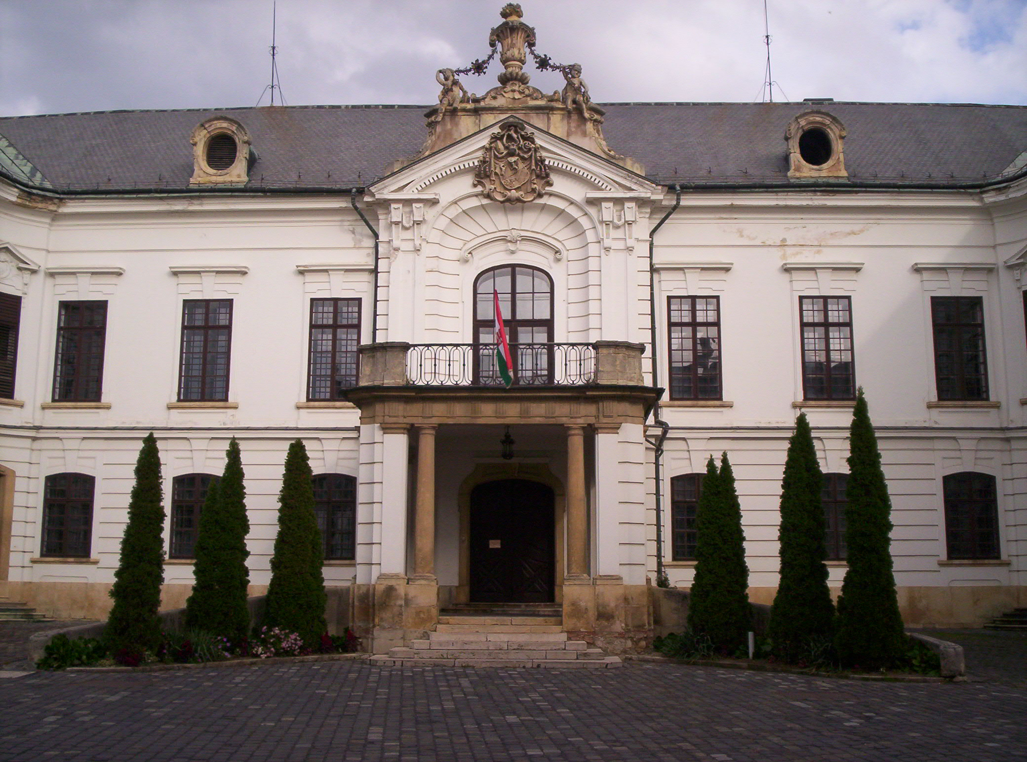 Description: Archbishop’s Palace of Veszprém. Coat of arms of Ignác Koller, bishop of Veszprém.